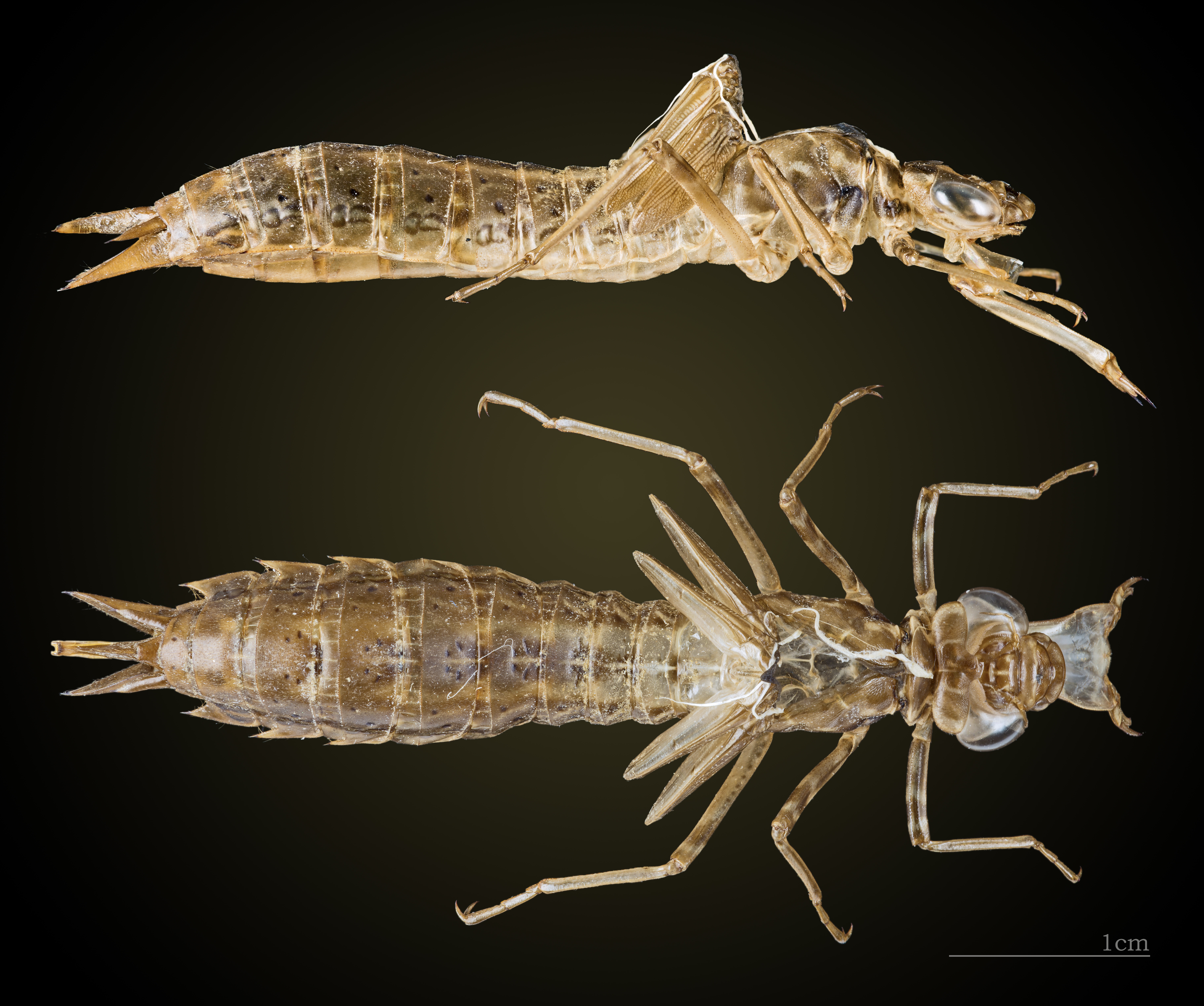 Emperor dragonfly, exuvia